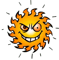 A drawing of the sun with an angry face on it.